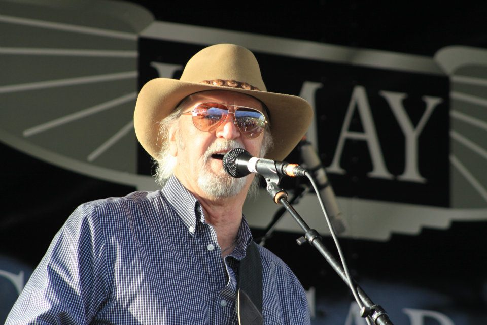 Jerry Miller 68th of all time guitarist..